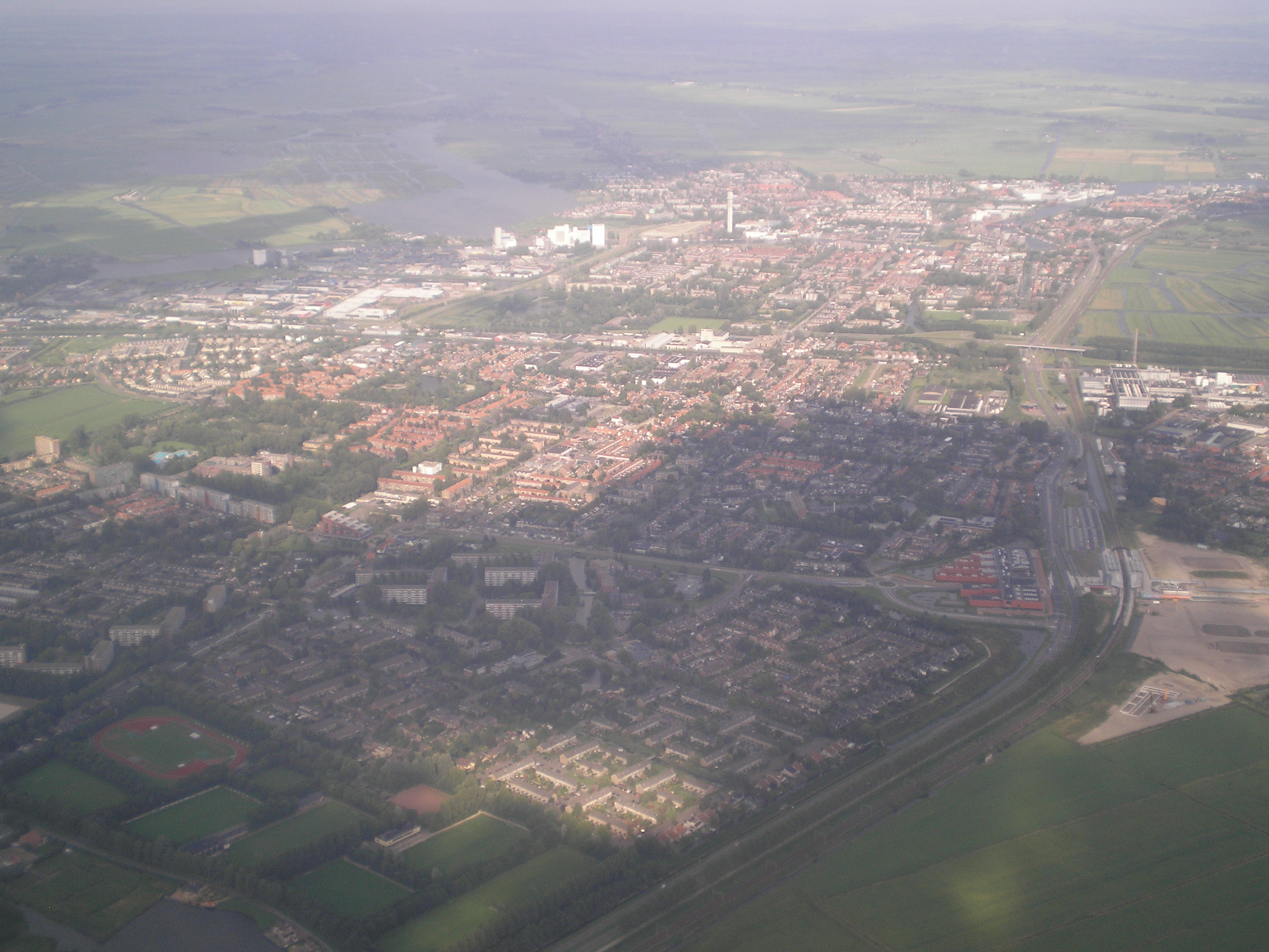 Krommenie, Wormerveer and Wormer (Holland) seen from the air.